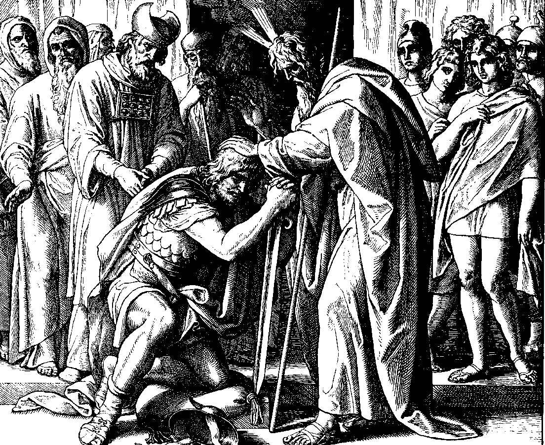 Woodcut for "Die Bibel in Bildern", 1860.